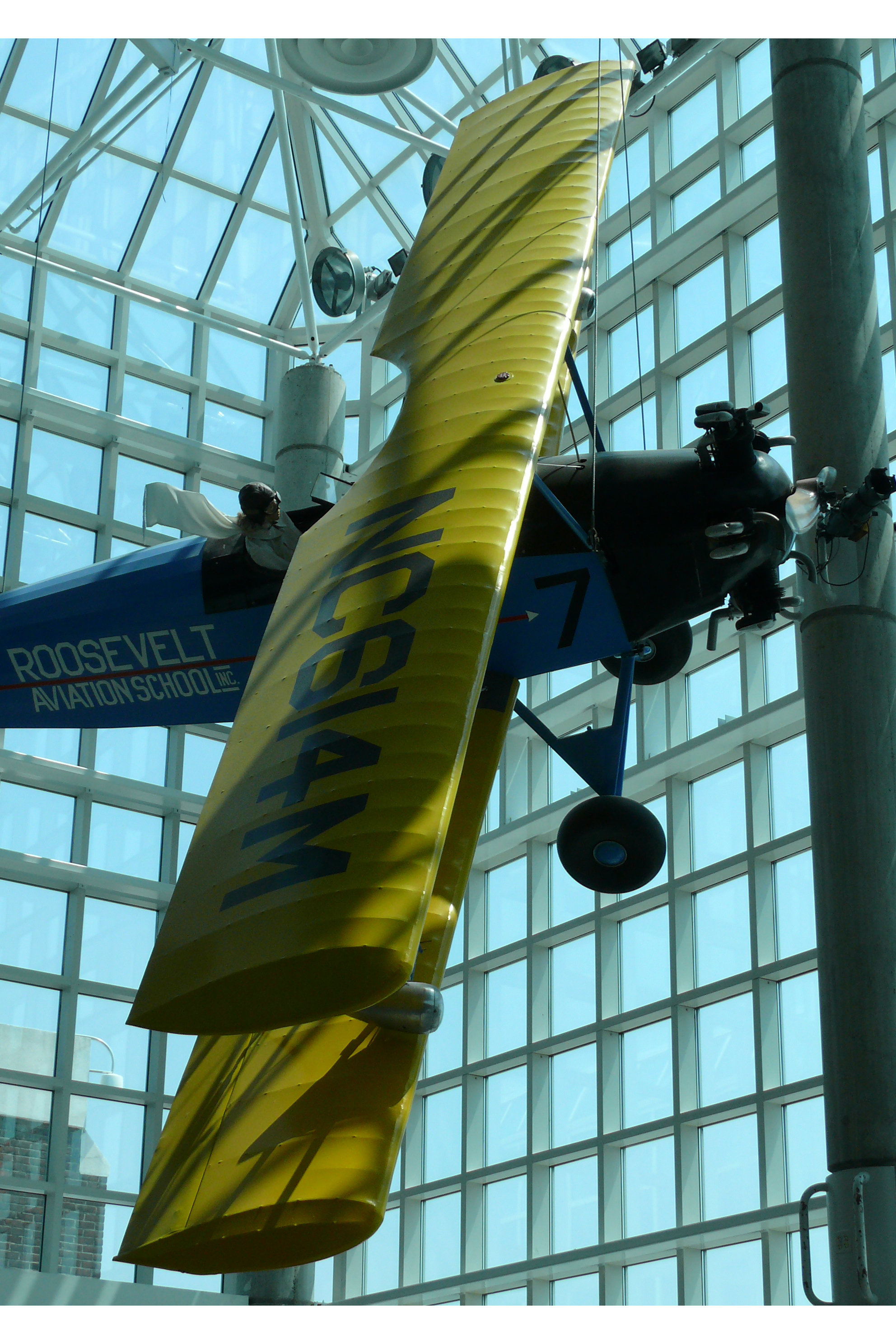 Fleet Model 2 biplane in the Cradle of Aviation Museum. The Fleet Model 1 and its derivatives were a family of two-seat trainer and sports plane produced in the United States and Canada in the 1920s and 30s. They all shared the same basic design and varied mainly in their powerplants, model 2 had a Kinner K-5 engine. They were all orthodox biplanes with staggered, single-bay wings of equal span and fixed tailskid undercarriage. This aircraft, NC614M, was the Roosevelt Aviation School's night-flying trainer. It was restored and painted in the colours it had back then.